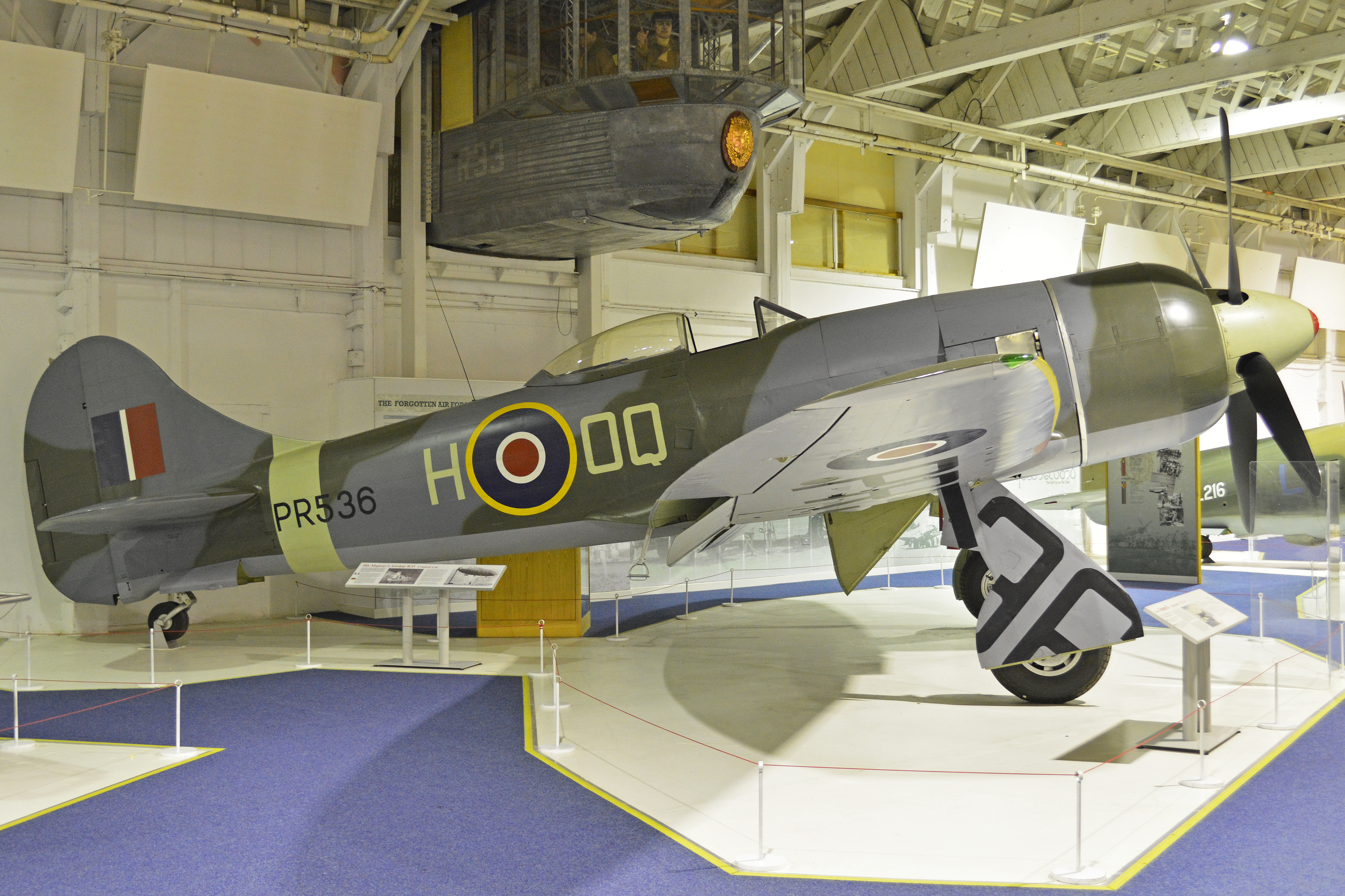 Built 1945/46. Flew with 5sqn RAF based at Peshawar until the unit disbanded in August 1947. It then saw Indian Air Force service as ‘HA457’ from September 1947. The type was withdrawn from use in 1953 and most were stored or used as decoys. In 1976 eleven were offered for sale by the Indian Government. They were purchased by Warbirds of Great Britain and arrived in the UK in 1979. ‘PR536’ was sold to Nick Grace (who later restored Spitfire T9 ‘ML407’ and was stored. The fuselage was acquired by the RAF Museum in 1987 in exchange for the fuselage and Napier Sabre engine of Tempest V ‘EJ693’. Together with some ex-Indian wings already owned by the RAF museum, the aircraft moved to Duxford and was fully restored by The Fighter Collection, in exchange for Sea Fury FB11 ‘VX653’. It was completed in genuine 5sqn markings as per a 1946 photo, and in late 1991 it went on display in Hendon’s Historic Main Hangars, RAF Museum, Hendon, London, UK. 22-3-2015